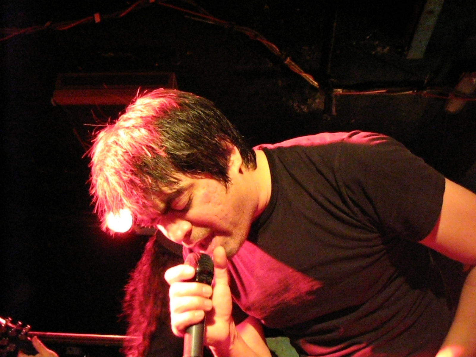 Ray Alder from Fates Warning at The Underworld in Camden, 2007-11-21.